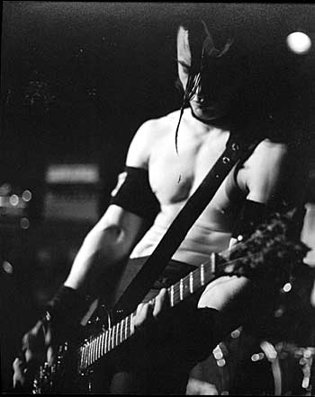 Doyle, guitarist for The Misfits, at 9:30 Club performance in Washington, D.C.